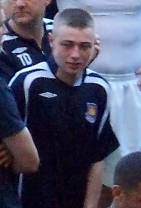 English football (soccer) player Freddie Sears